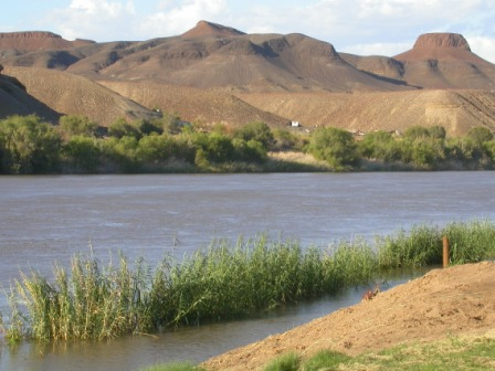 looking at Namibia and the Orange River from the camp